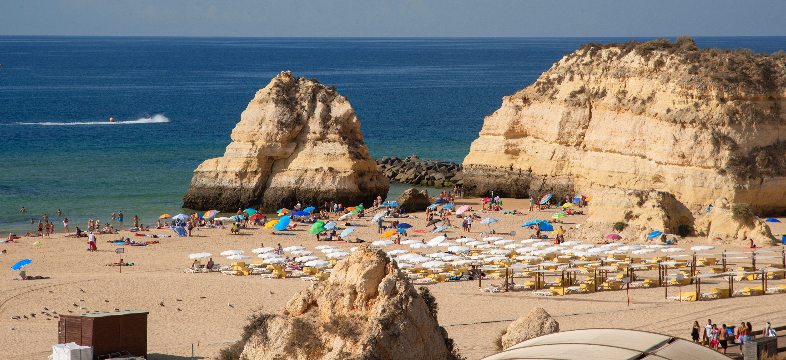 Part of the Praia da Rocha beach, Portimão